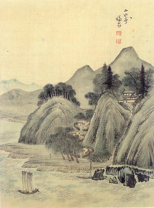 Isujeong